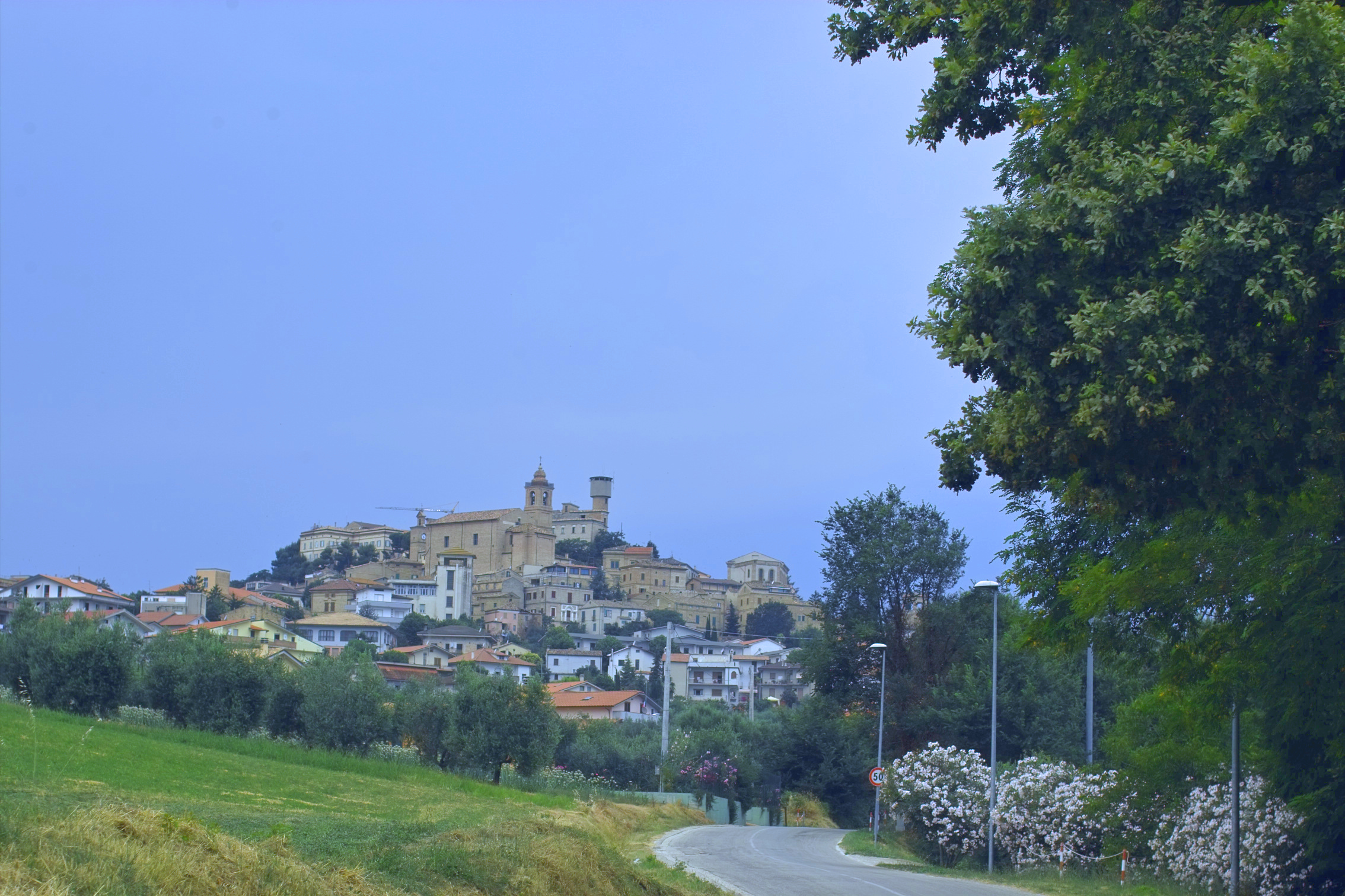 View from the Via Roma unto Colonnella.